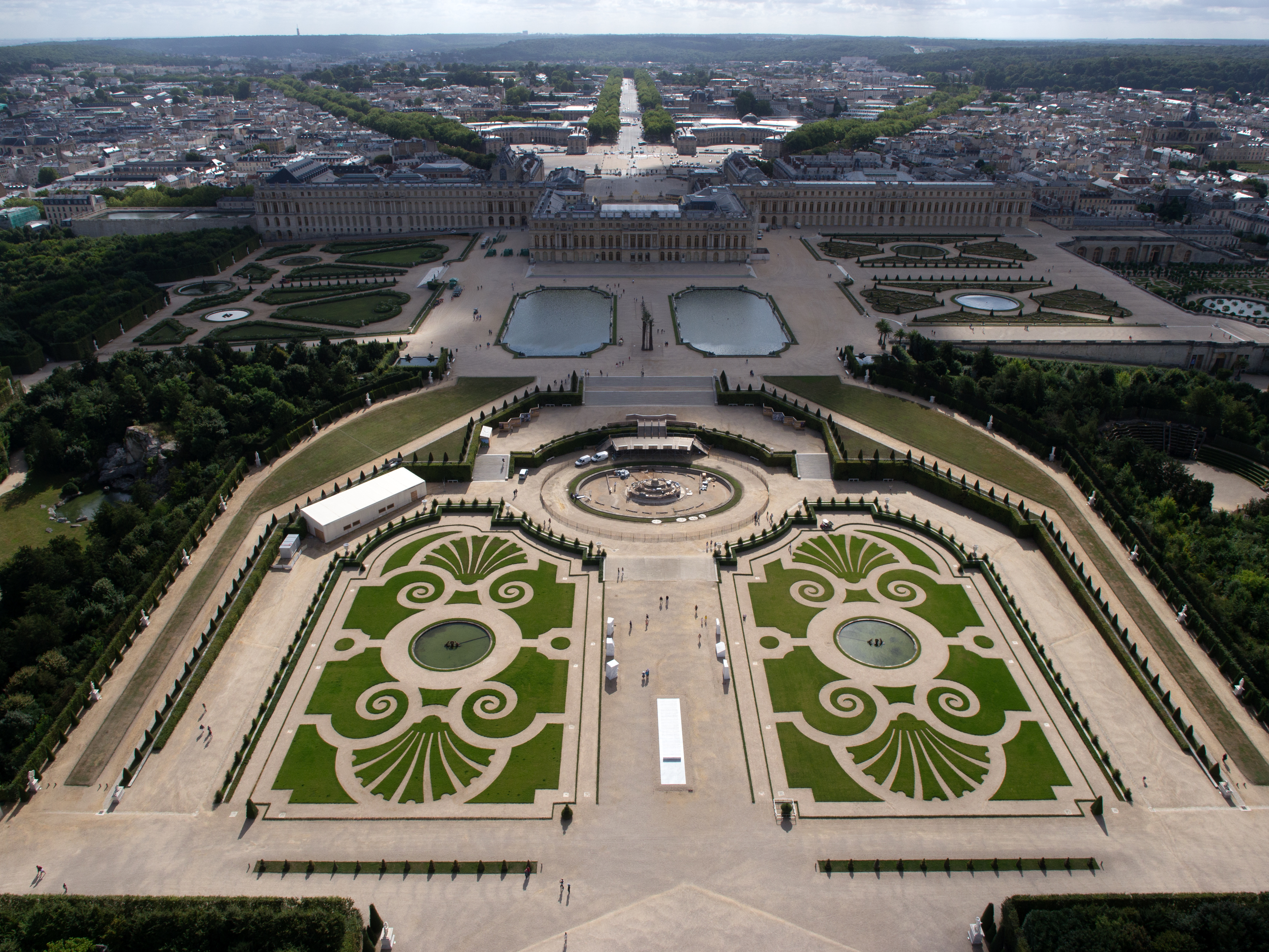 Aerial view of the Palace of Versailles and its gardens in France with the Parterre de Latone et the Parterre d'Eau.